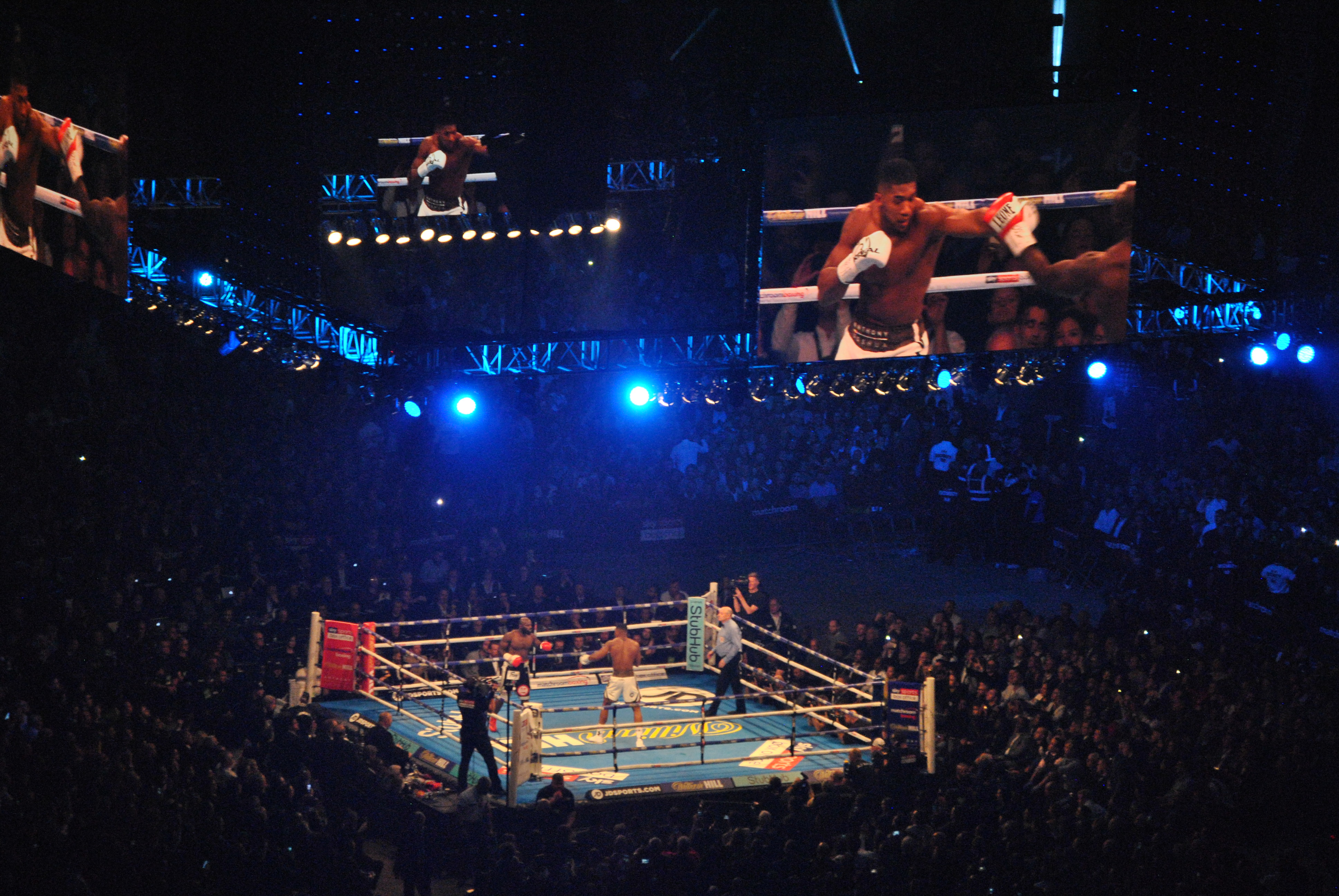 Joshua_v_Takem at the Millennium Stadium, Cardiff.